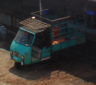 Tempo Minidor 3-wheel utility vehicle. Crop of File:PRABHAT FACTORY.JPG by Vickylycans wiki.